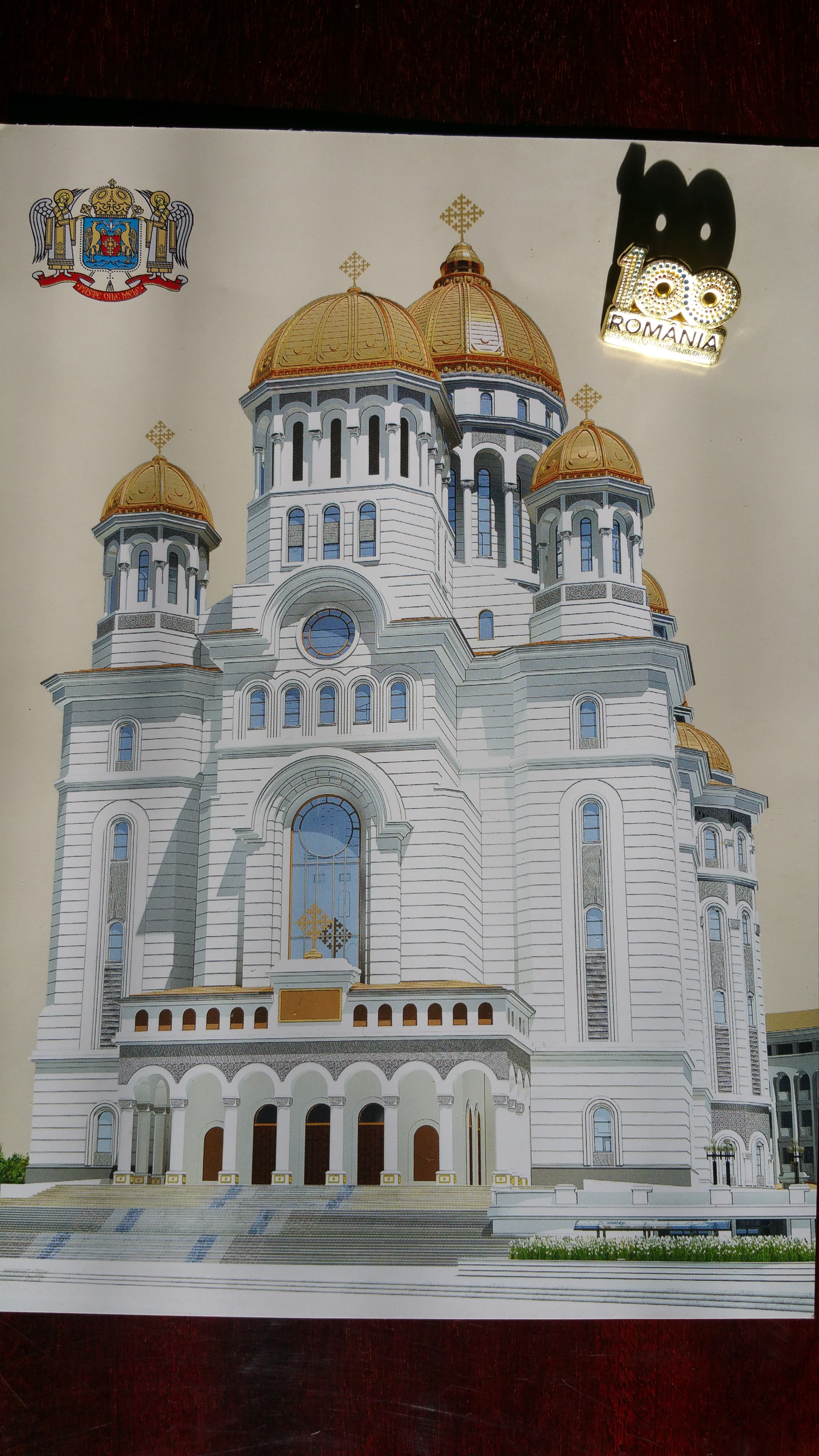 People's Salvation Cathedral - Postcard for the Centenary of Romania